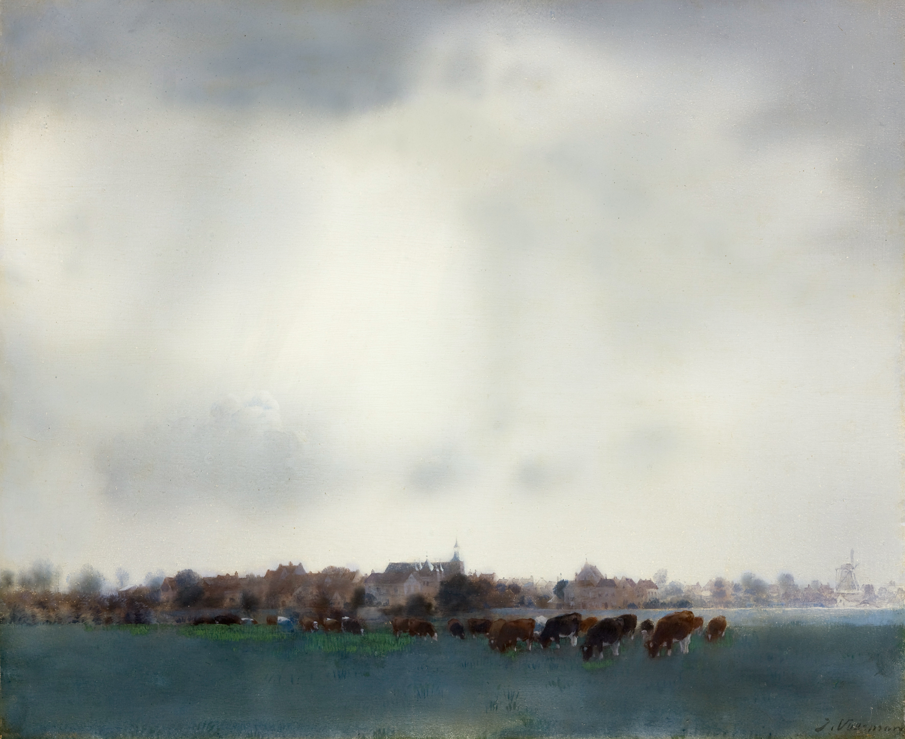 View of Hattem oil on panel 1877 - 1941 52 x 42 cm oil on panel signed b.r.: J. Voerman